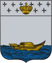 Vyshny Volochek (Tver oblast), coat of arms (1772)